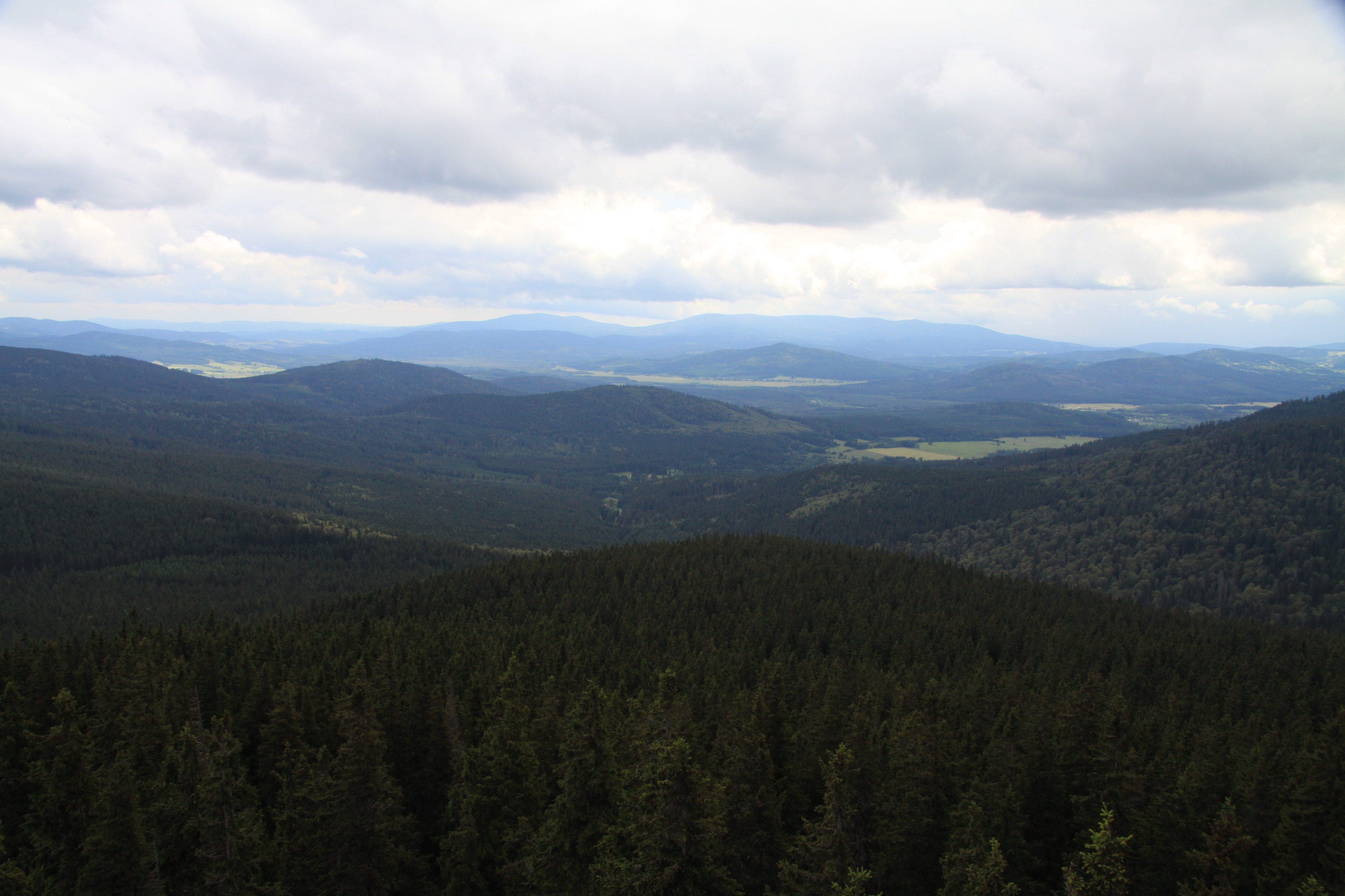 National nature reserve Boubínský prales, Prachatice District, Czech Republic